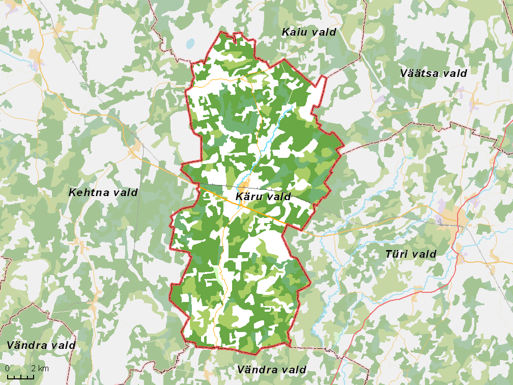 Map of municipality in Estonia